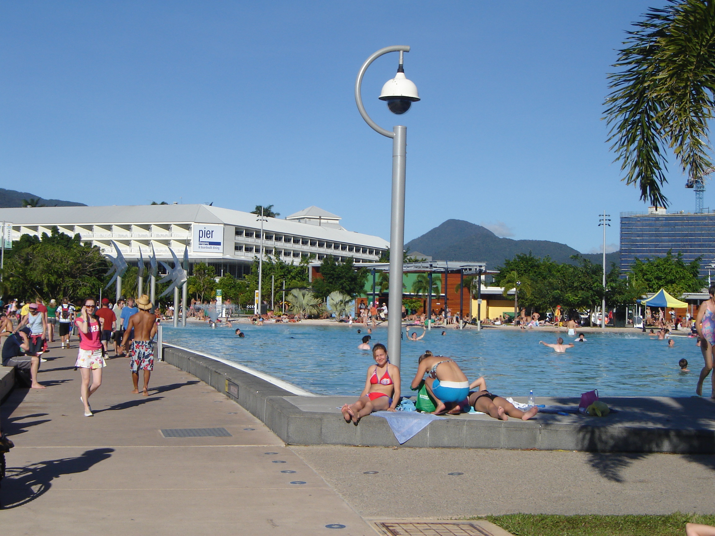 Cairns Lagoon in Cairns City. Photo taken by Frances76.